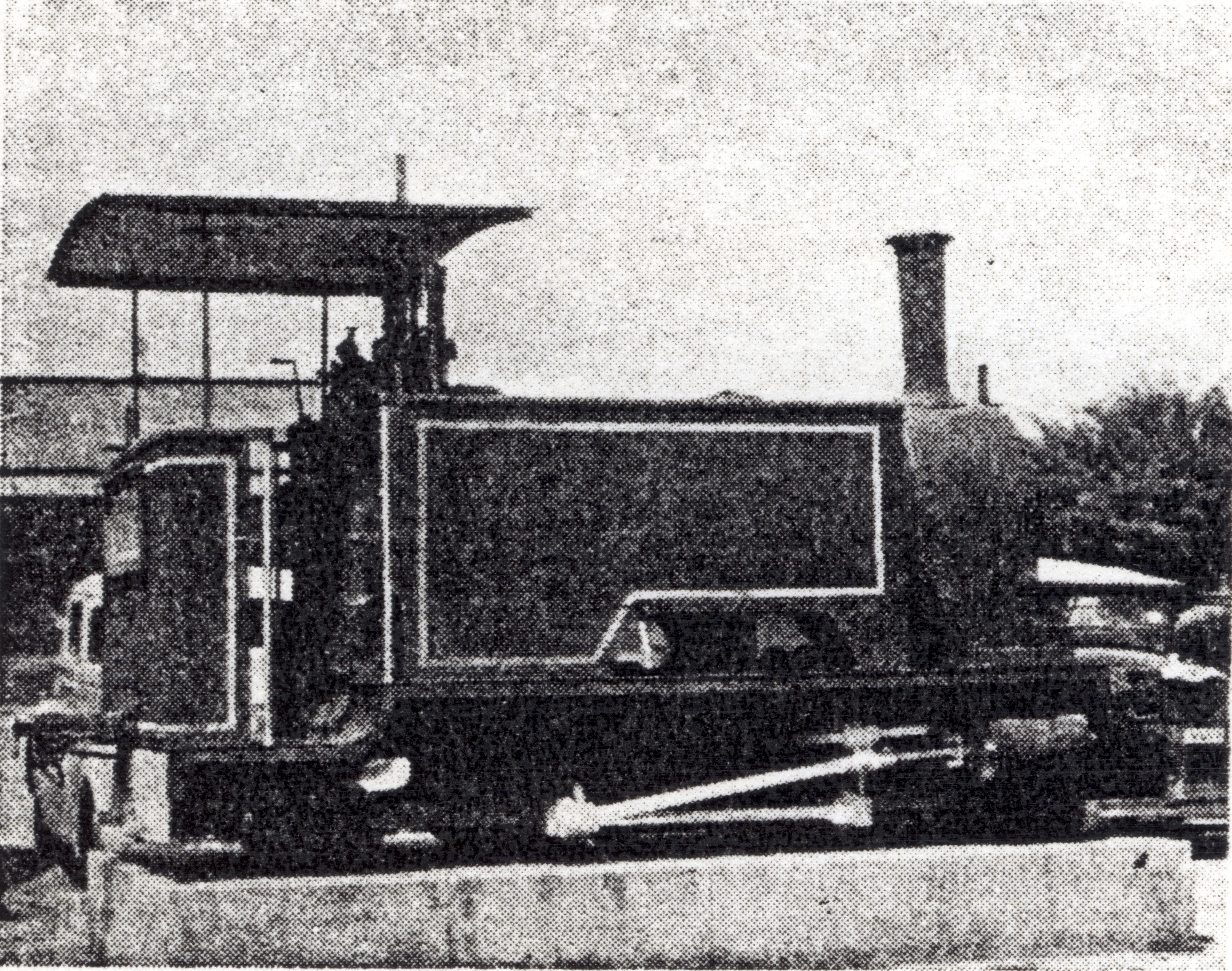 Walvisbaai 2-4-2T locomotive, used on the Walvisbaai 2ft 6in gauge line from 1899 to 1906, when the line was closed to traffic.